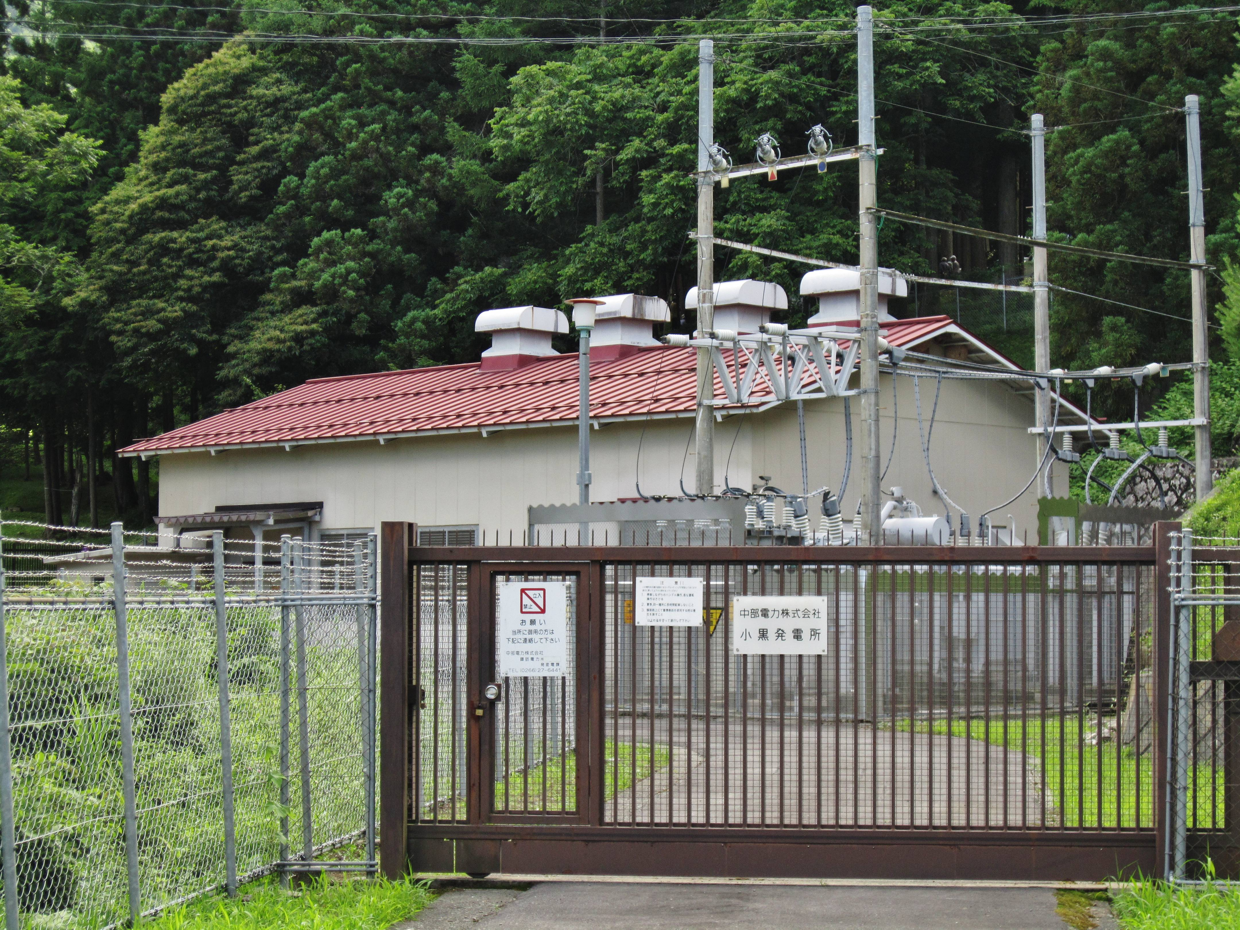 Oguro power station.